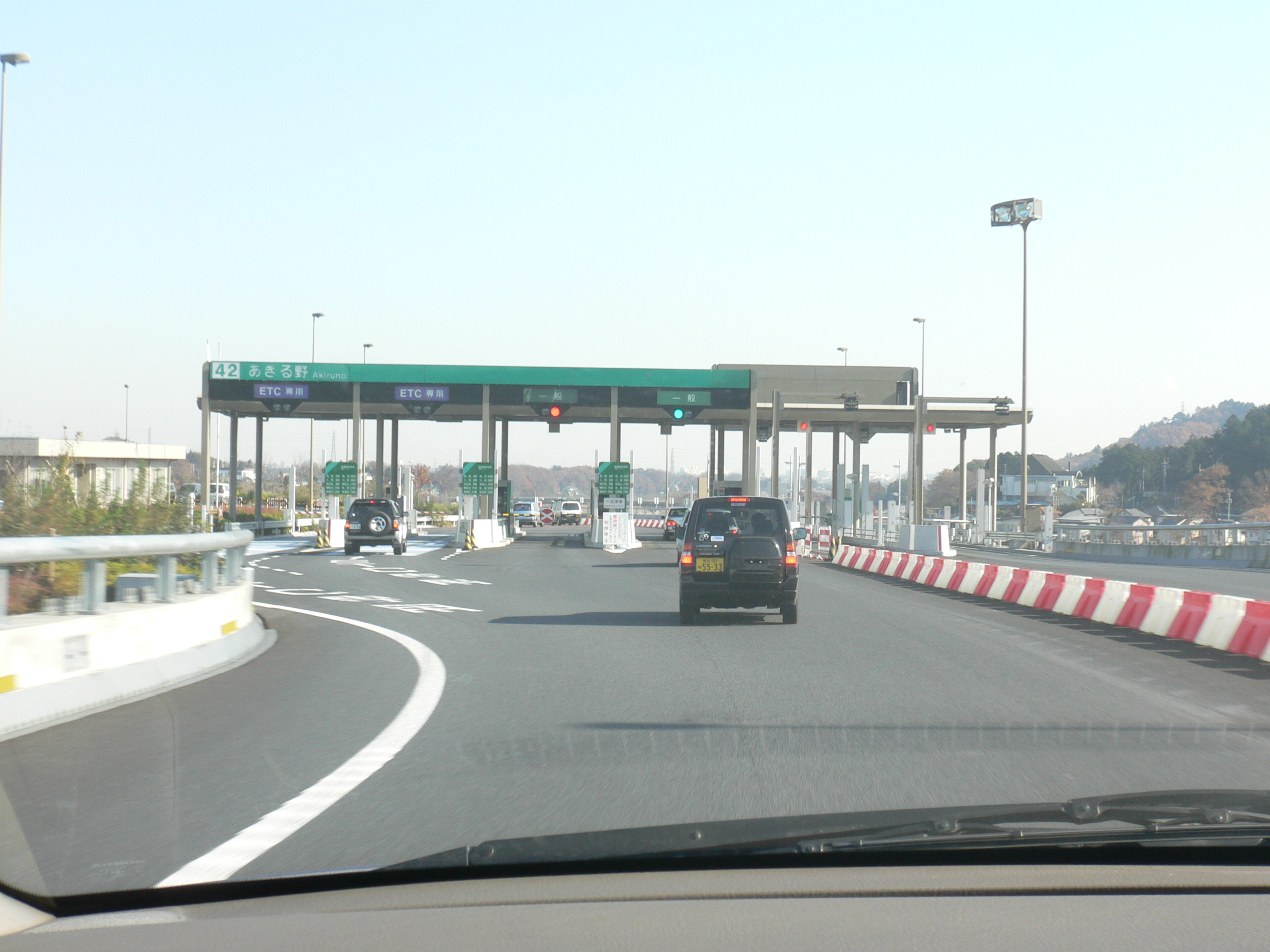 Ken-O Expressway/Iruma IC (首都圏中央連絡自動車道/あきる野インターチェンジ), Akiruno C, Tokyo M.